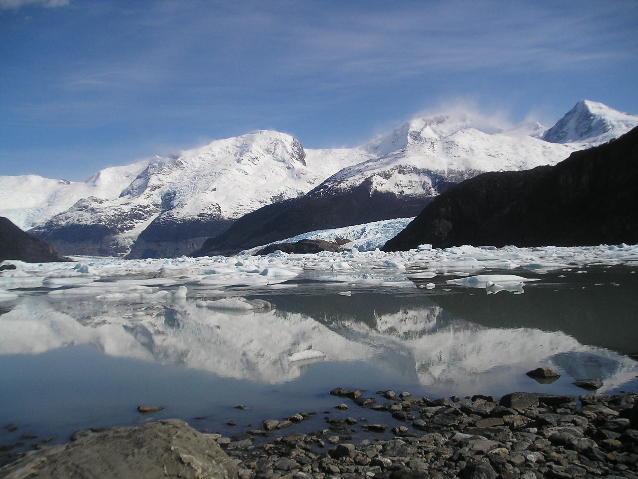 A view of Laguna Oneli, Los Glaciares National Park, Argentina